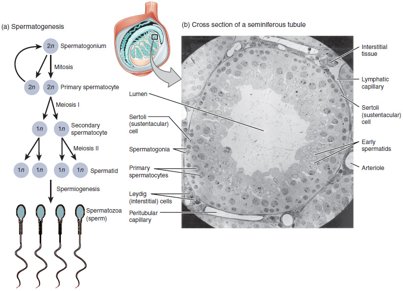 Illustration from Anatomy & Physiology, Connexions Web site. Jun 19, 2013.